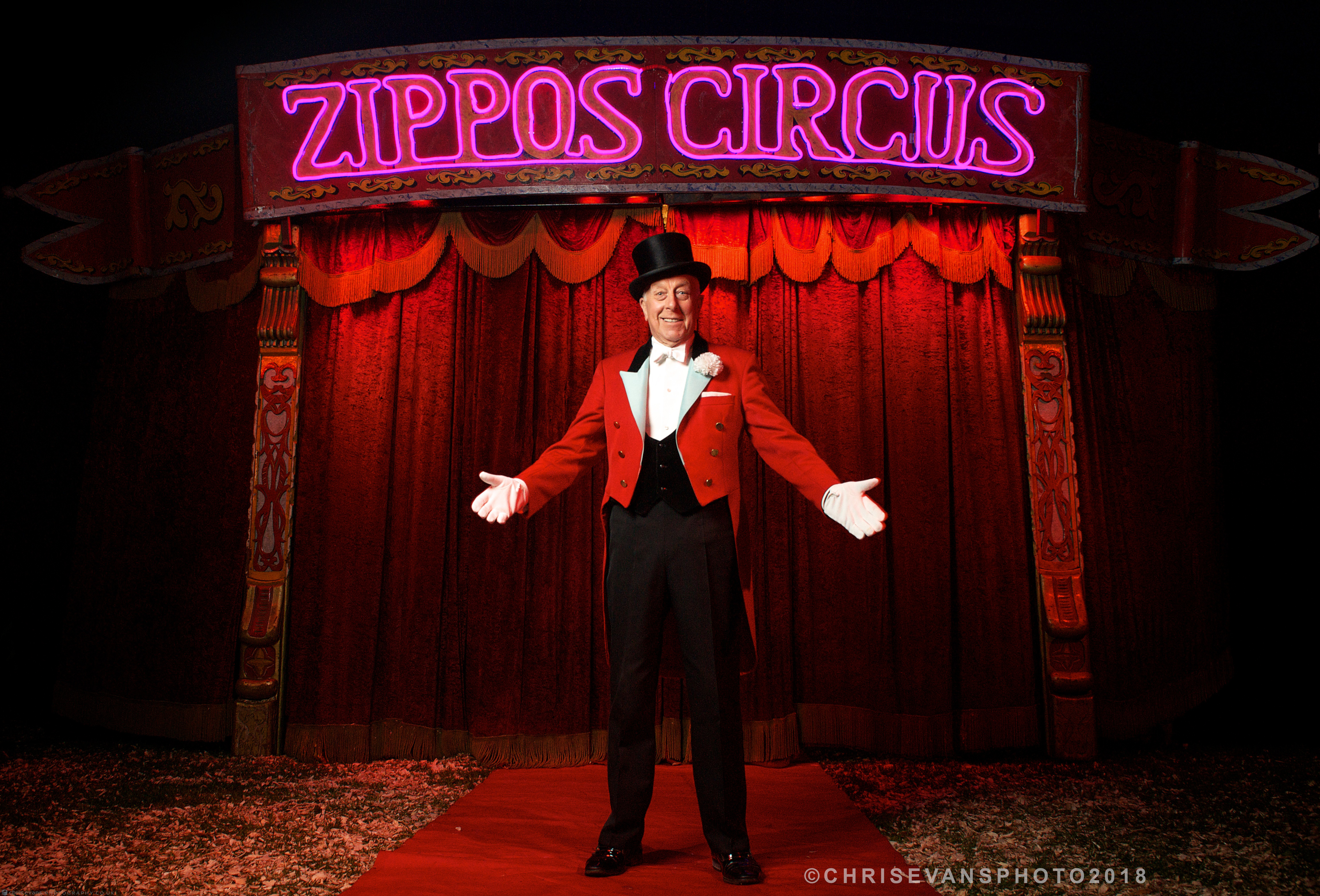 I had the very good fortune to photograph Mr Norman Barrett just minutes before he was about to host another dazzling night in the big top.